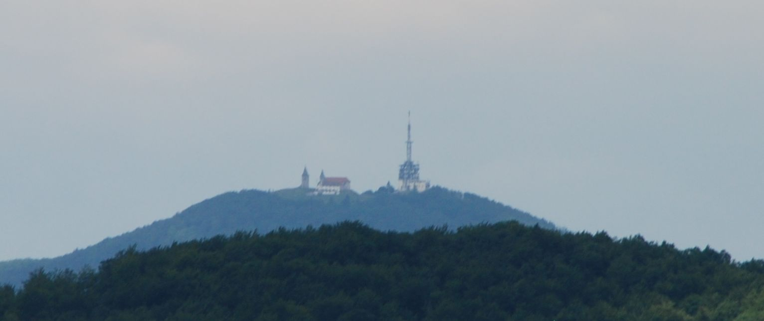 View of Mt. Kum from Cirnik, Mirna.